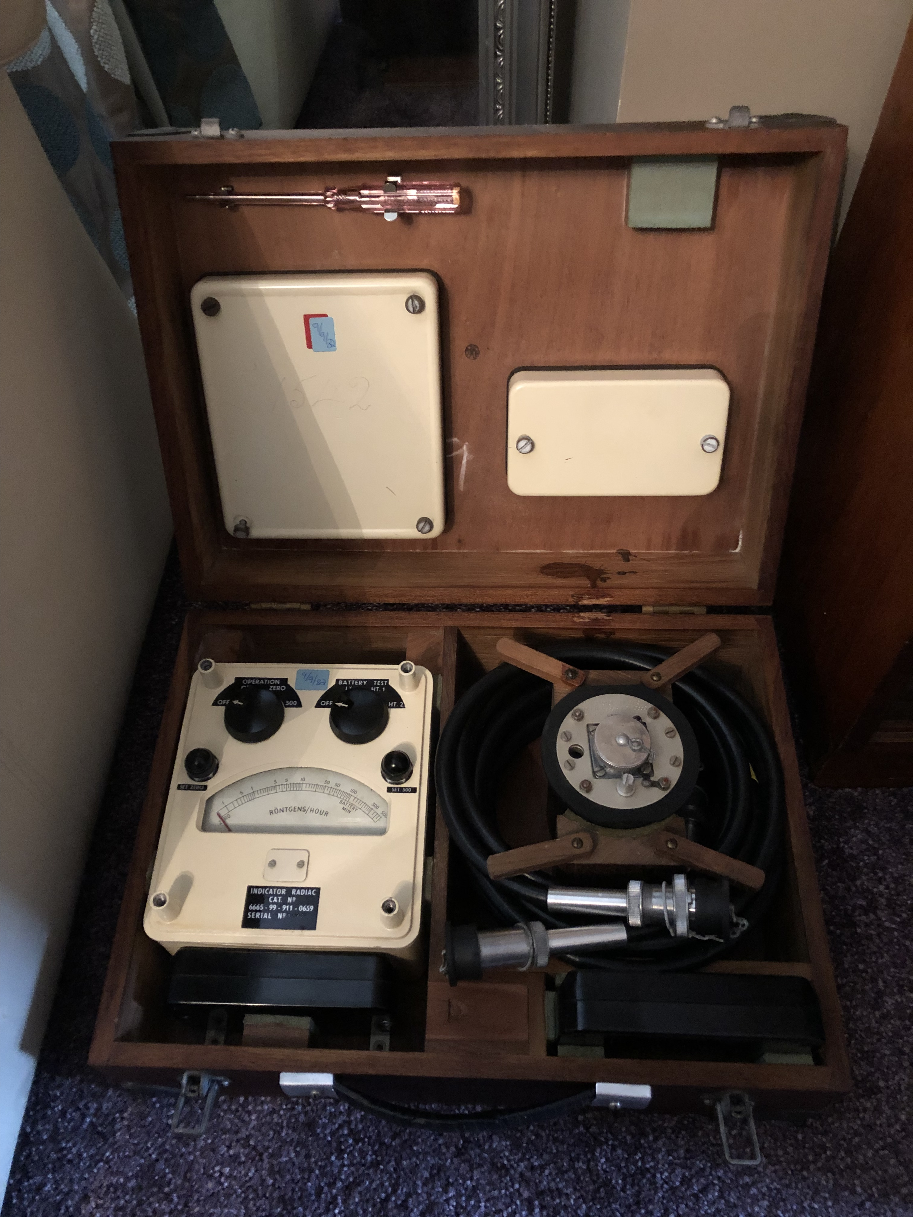 Photo showing the early Royal Observer Corps Fixed asurvey Meter in its wooden case.